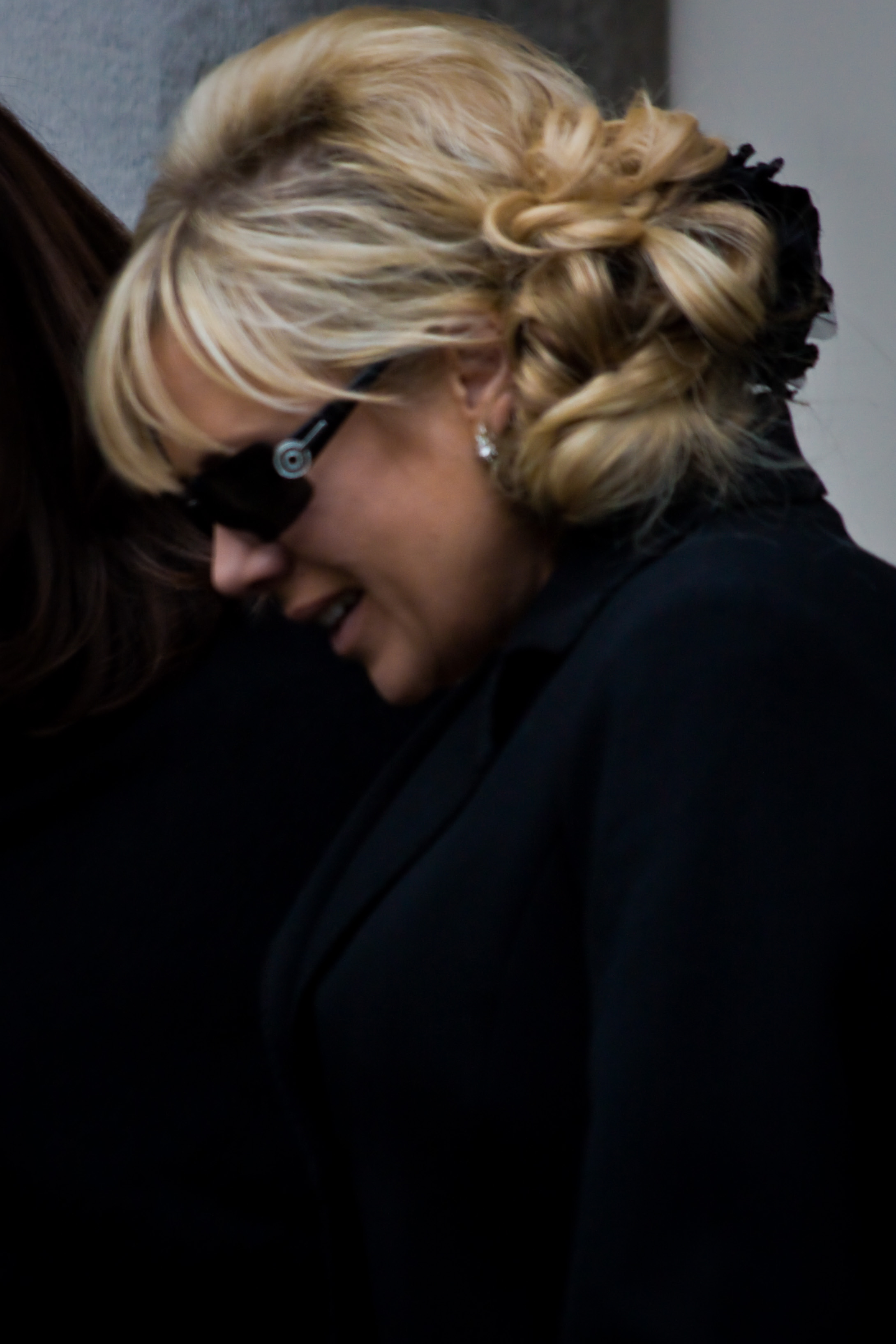 Letitia Dean at the funeral service for actress Wendy Richard at St Marylebone Parish Church.